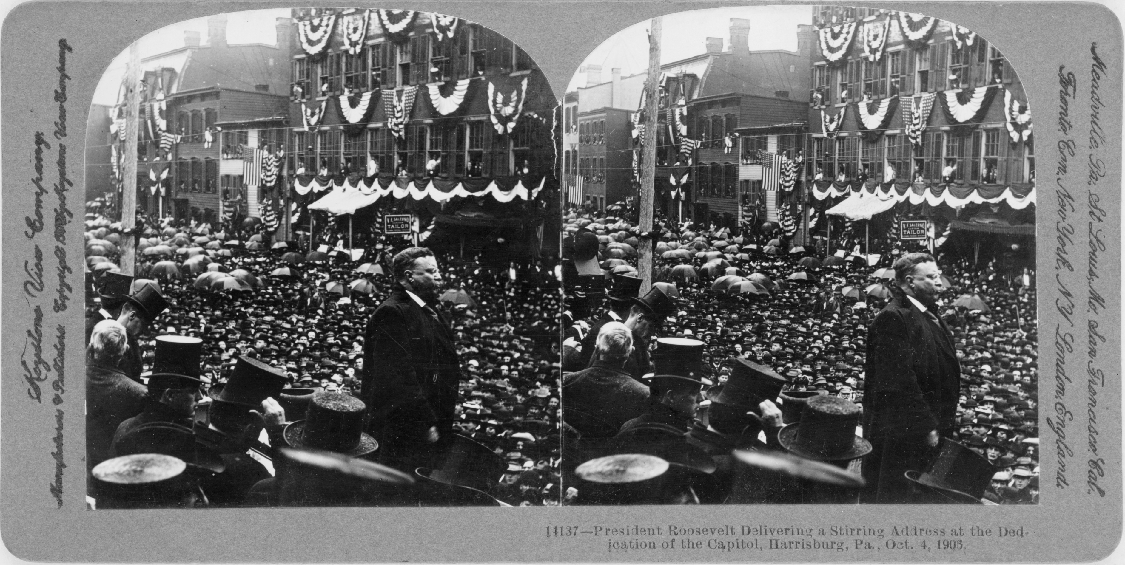 President Theodore Roosevelt at the dedication of the Pennsylvania State Capitol in Harrisburg, Pennsylvania. Original caption was: "President Roosevelt delivering a stirring address at the dedication of the capitol, Harrisburg, Pa., Oct. 4, 1906"